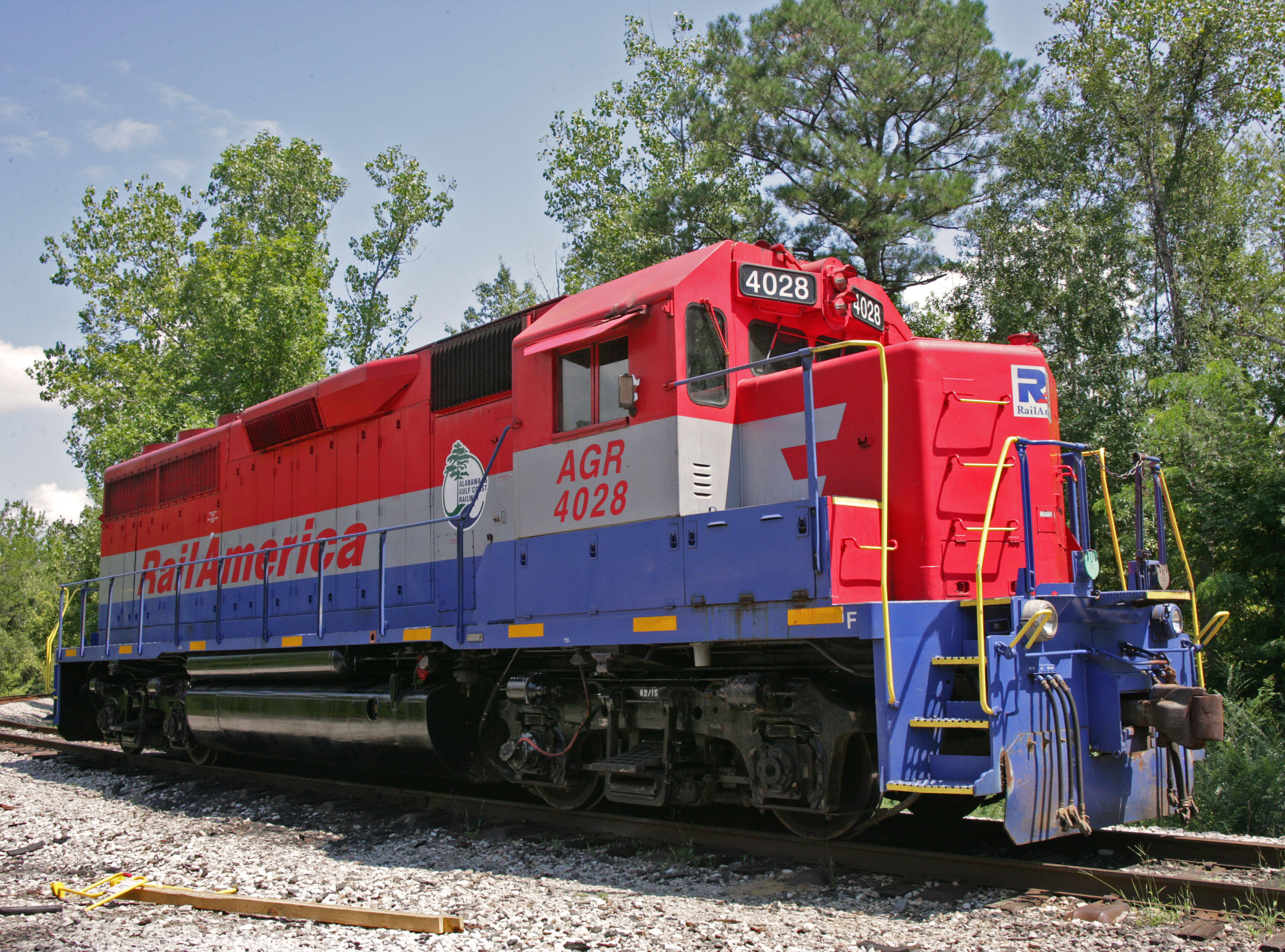 Alabama Gulf Railroad No. 4028